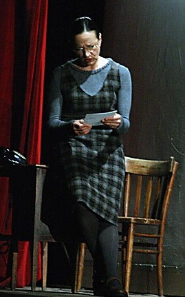 Italian actress Maddalena Crippa, in Sinfonia d'autunno